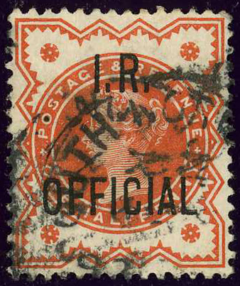 British Empire stamp, official issue 1888. Overprint I.R. OFFICIAL. SG O13.